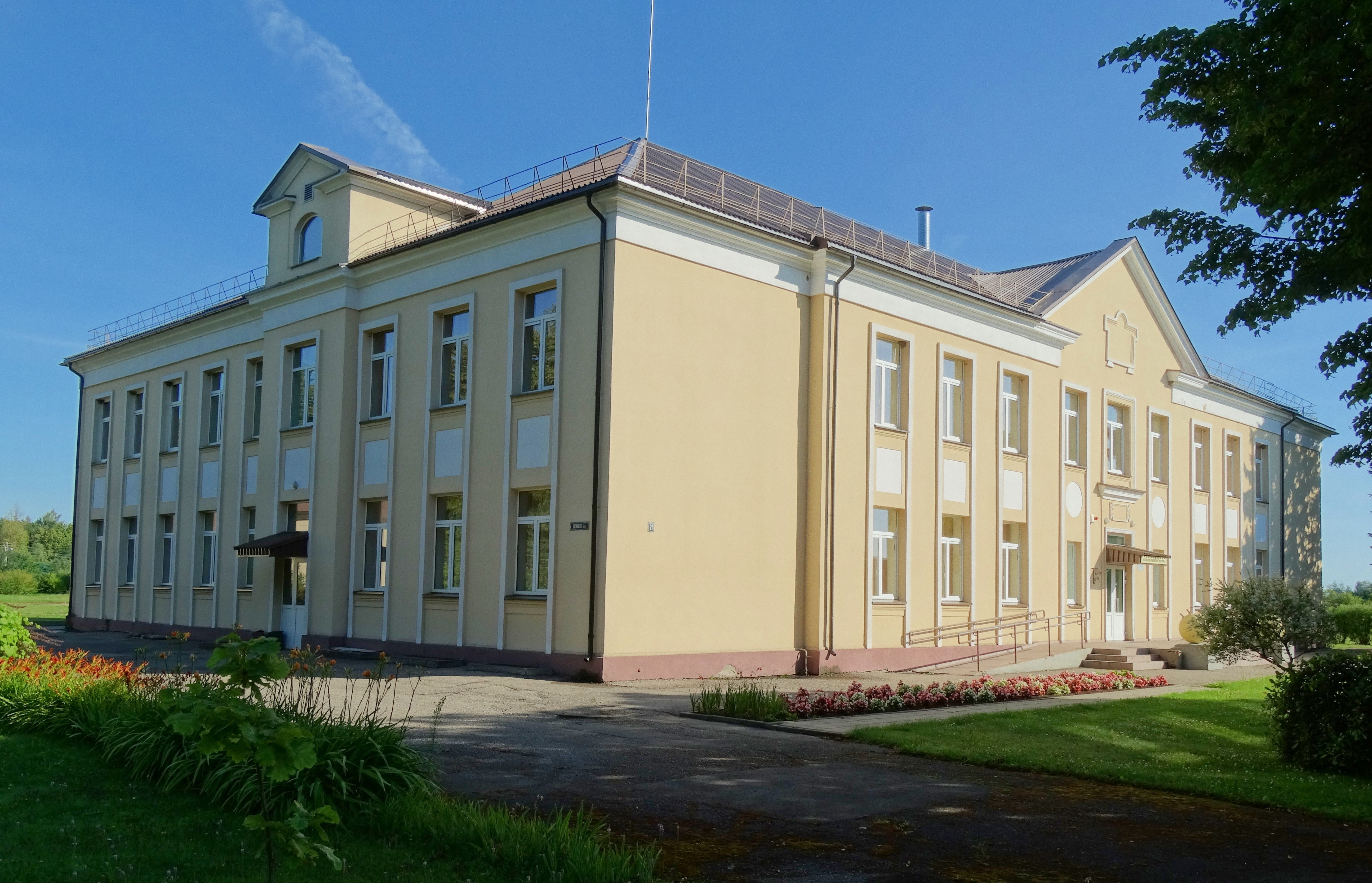 Dotnuva Basic School, Kėdainiai District, Lithuania